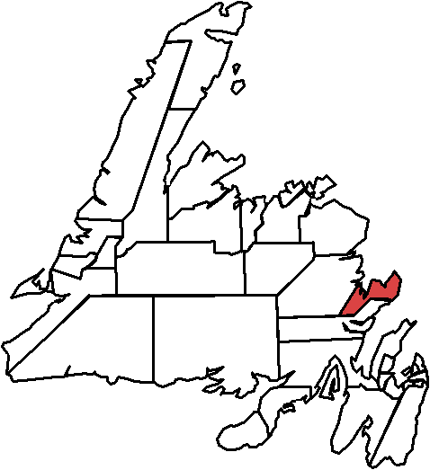 Map based on work by Earl Andrew, from maps used in 2007 elections Map based on work by Earl Andrew, from maps used in 2007 elections